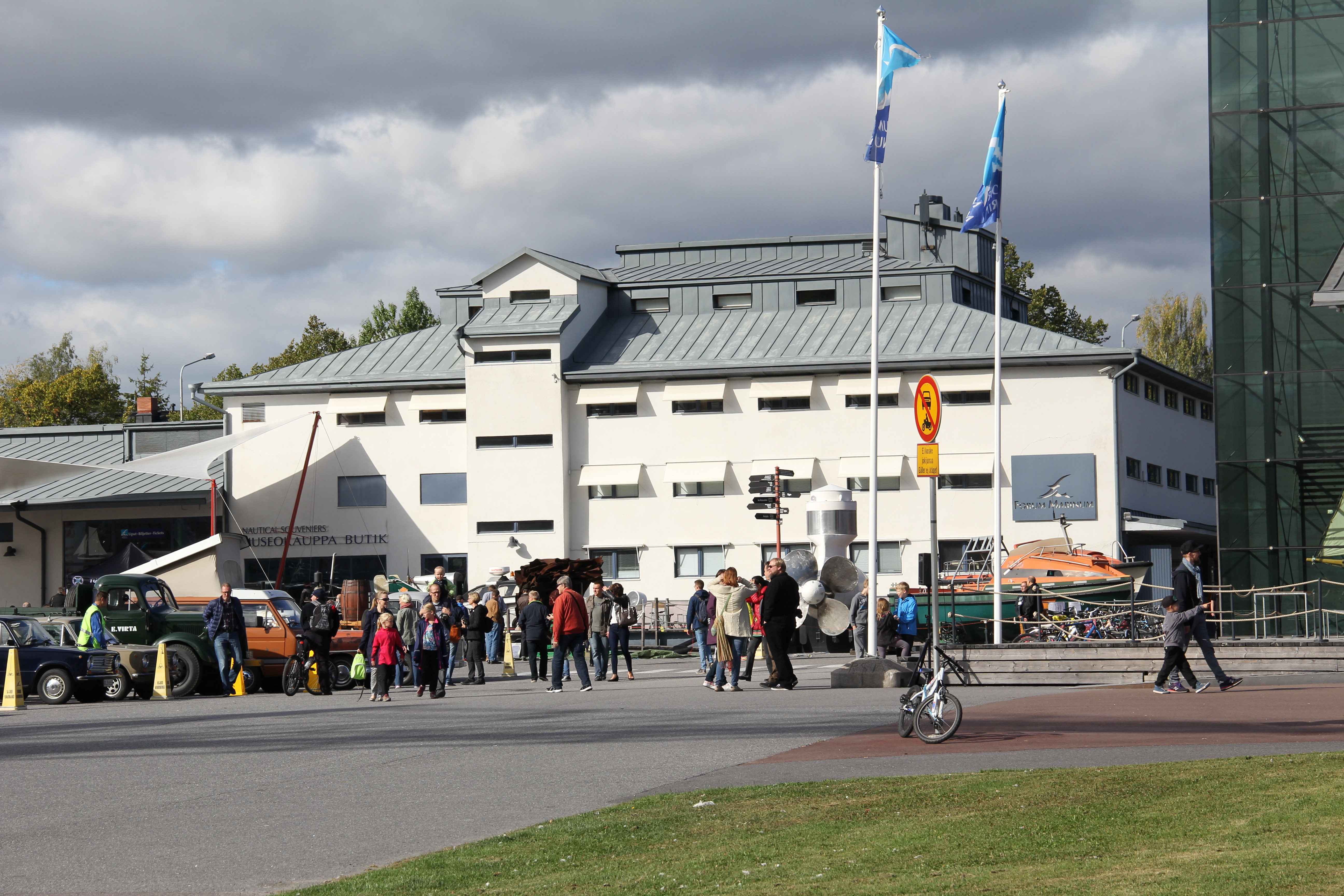 Forum Marinum main building, Turku, Finland.